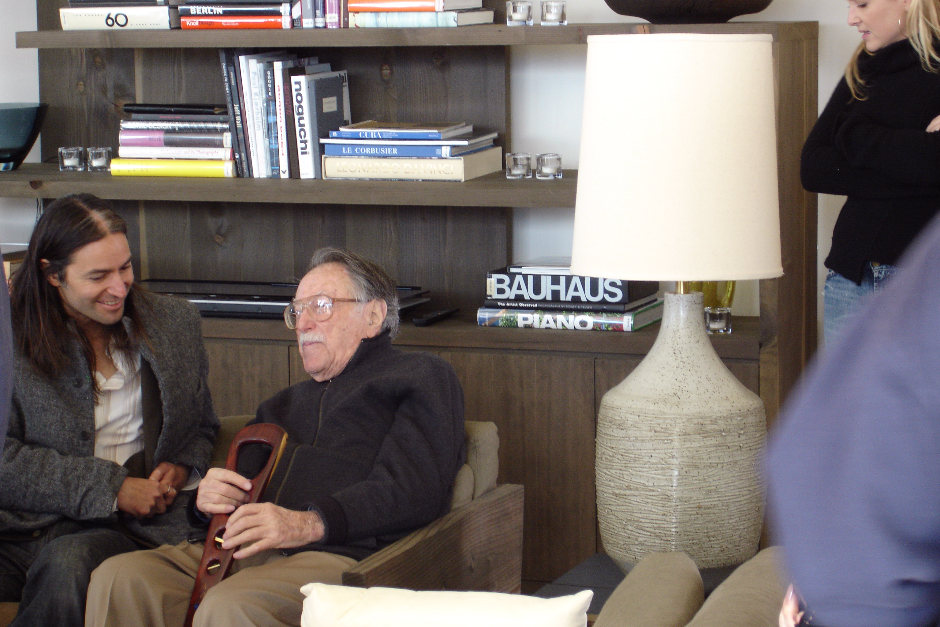 Julius Shulman with Ron Radziner at Marmol Radziner's modernist Pre-Fabricated Desert House. Desert Hot Springs, California